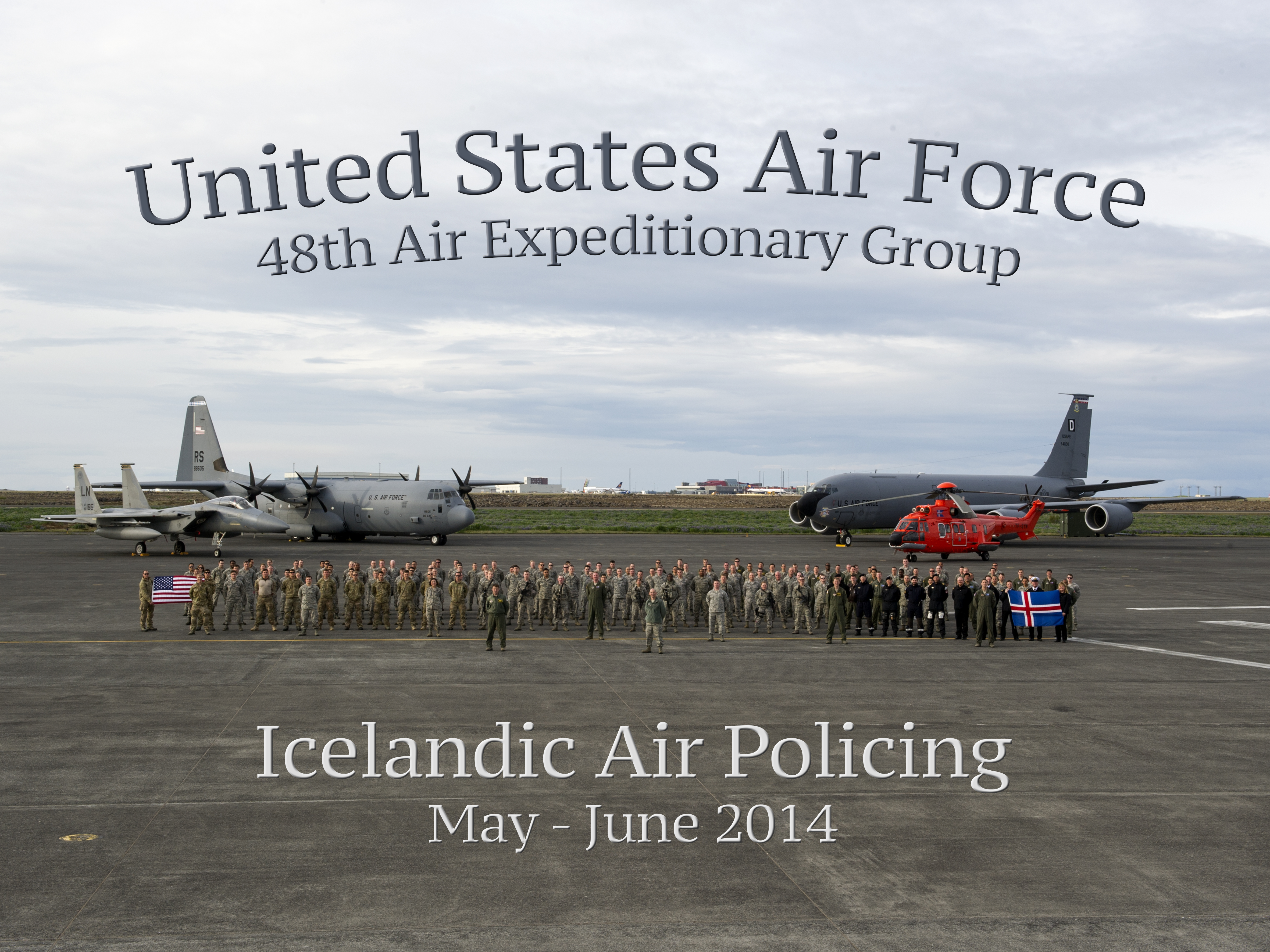 KEFLAVIK AIRPORT, Iceland -- U.S. Air Force Airmen deployed with the 48th Air Expeditionary Group are performing Icelandic Air Policing from Keflavik Airport, Iceland, May 16 until June 6. The U.S. Air Force began providing protection of Iceland’s airspace in 1951, when a treaty was signed establishing permanent basing there. Though the U.S. has since withdrawn its permanent presence, NATO continues to provide air policing to meet Iceland’s peace-time readiness needs. (U.S. Air Force photo/Tech. Sgt. Benjamin Wilson) Source: "U.S. Air Forces in Europe & Air Forces Africa" (USAFE-AFAFRICA)